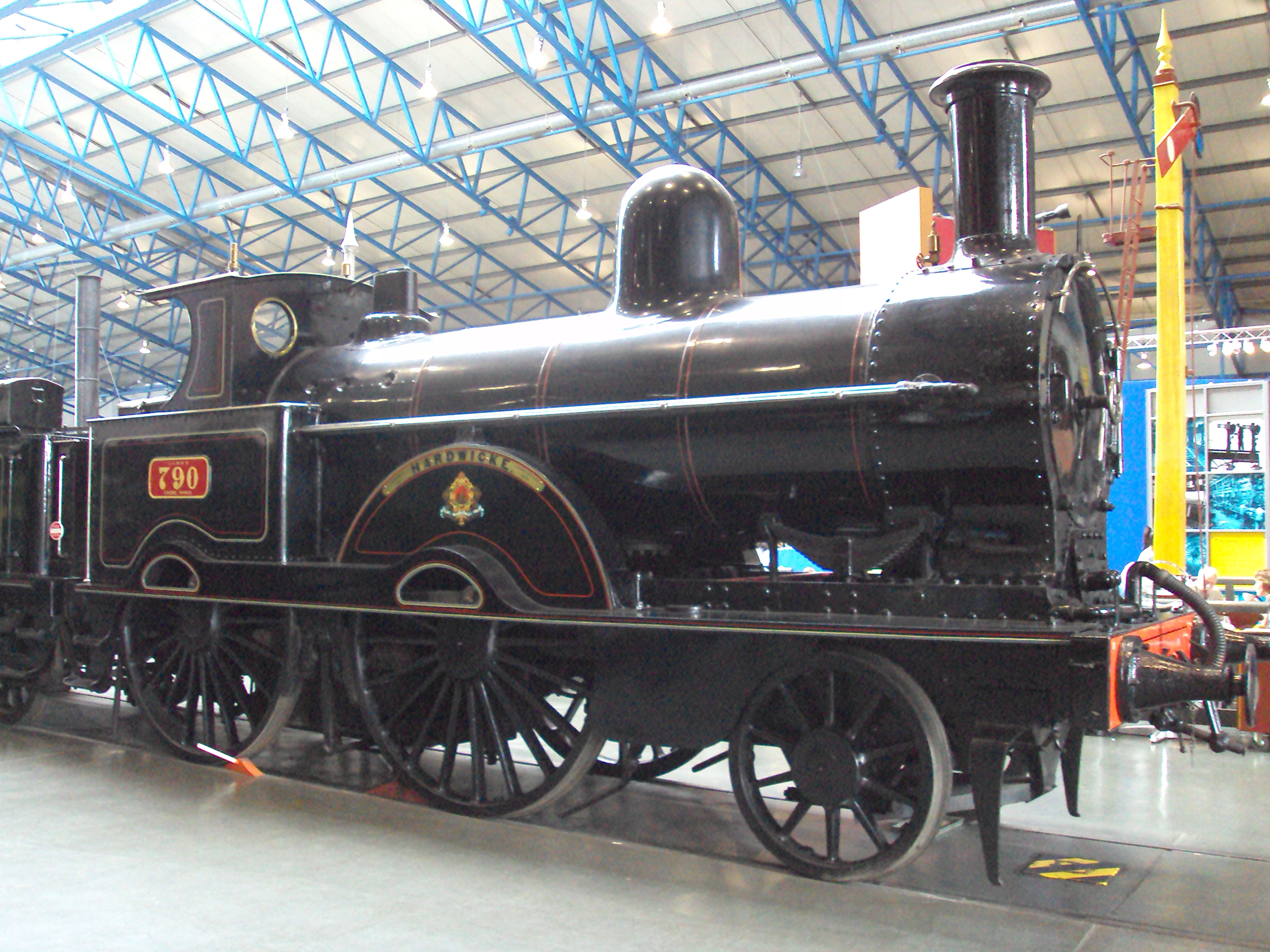 Steam locomotive number 790 "Hardwicke". Photo taken at the National Railway Museum, York.